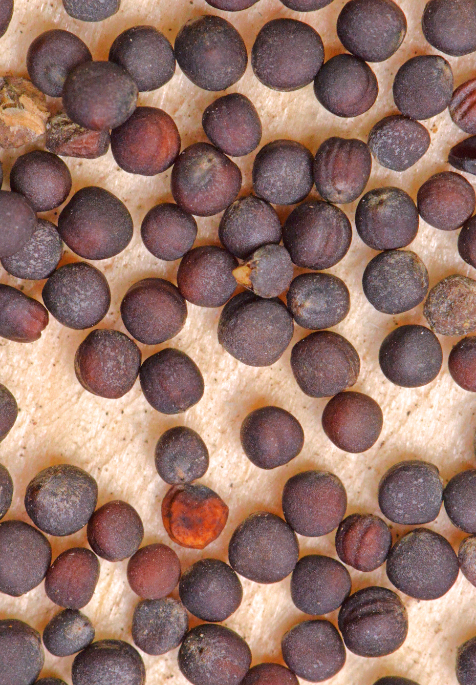 Brassica napus, seeds, size 2 mm